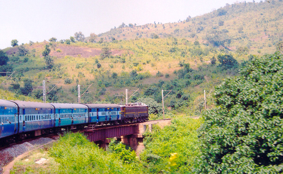 (Visakhapatnam-Kirandul) Passenger at Araku Valley